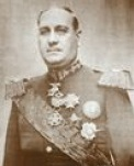 Photo of Óscar Novoa F. as Commander-in-Chief of the Chilean Army, 1934-1938